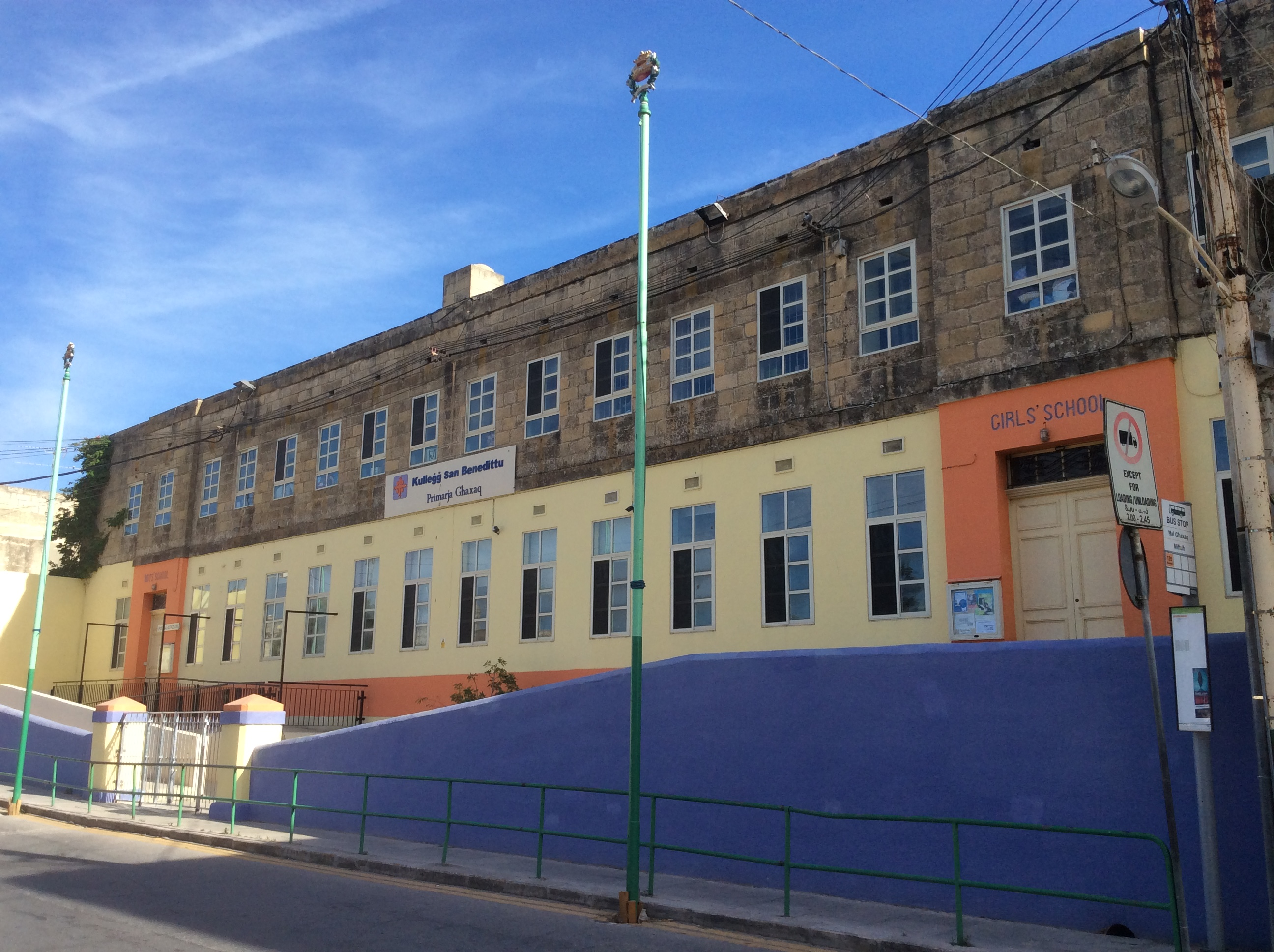 Architecture of Għaxaq